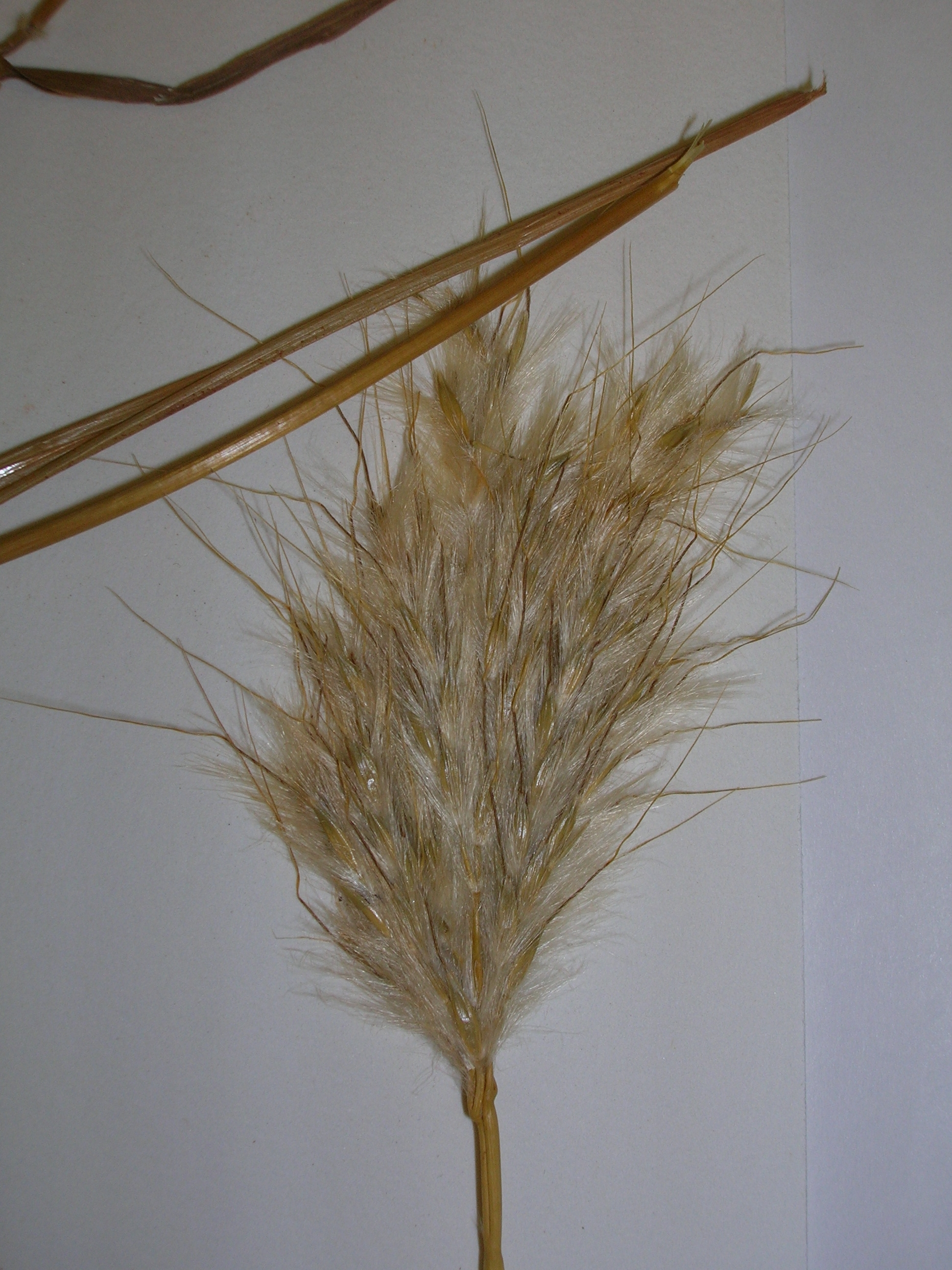 Bothriochloa barbinodis (BISH specimen). Location: Niihau, Halulu Lake